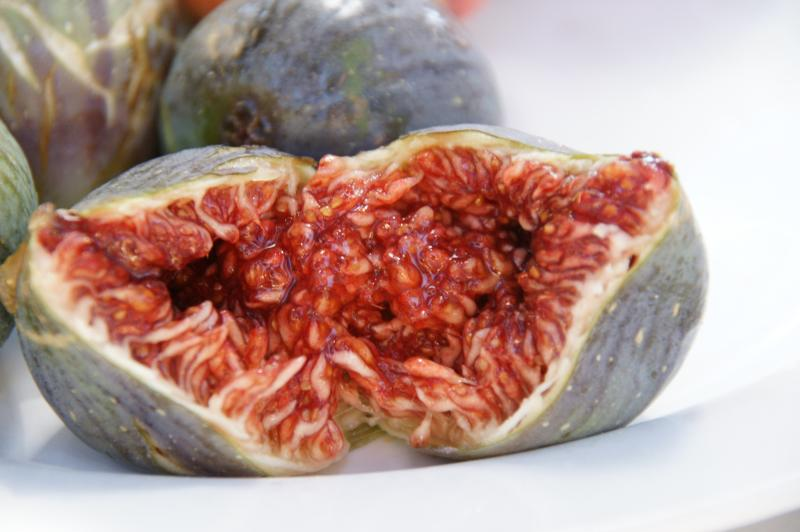 Black fig from Kabylia.